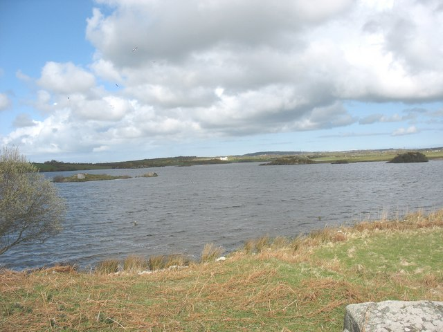 View North across Llyn Traffwll